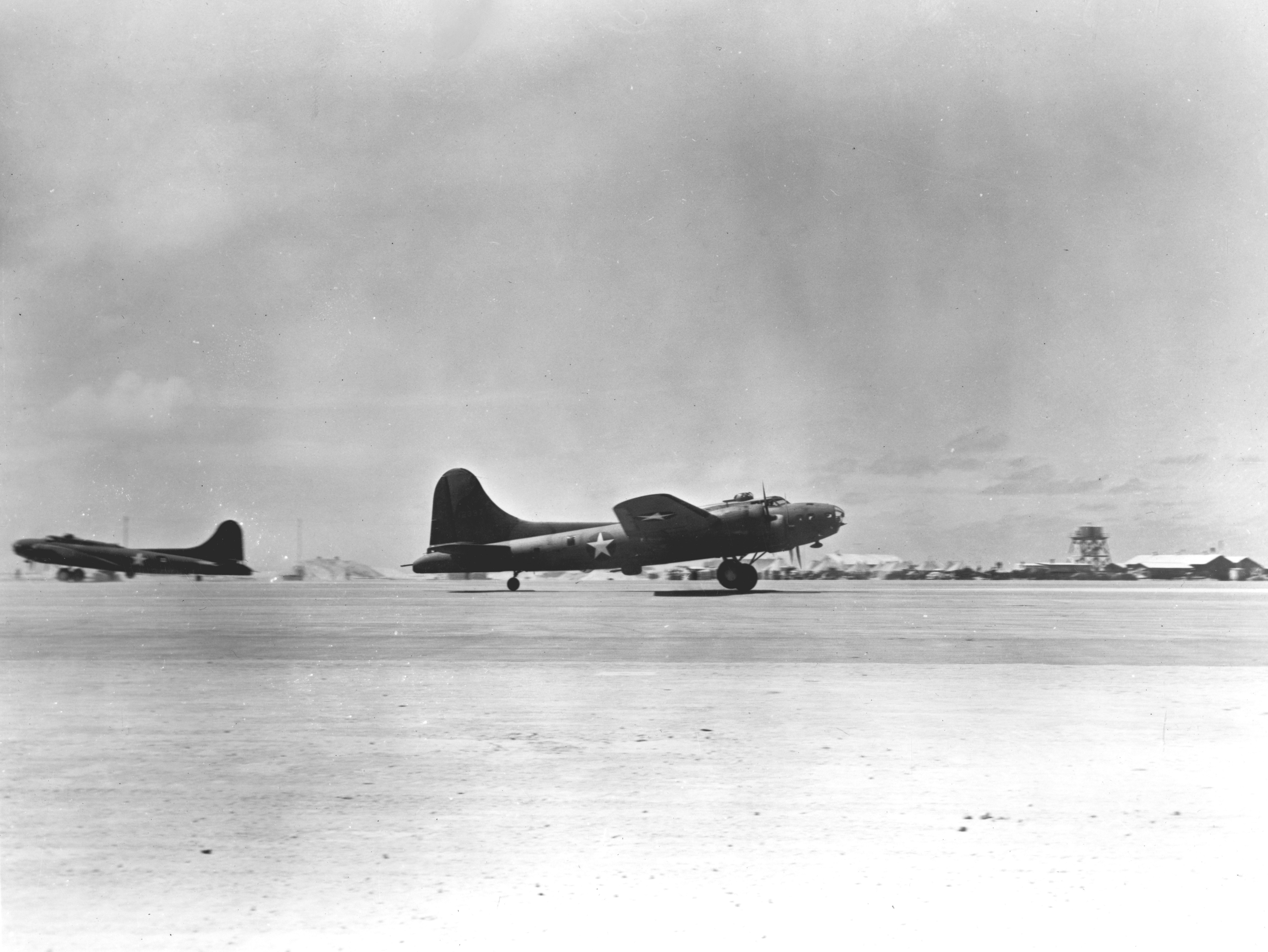 U.S. Army Air Force Boeing B-17E Flying Fortress bombers of the 431st Bombardement Squadron take off from the airfield on Eastern Island, Midway Atoll, on the afternoon of 31 May 1942. The plane in the center is an early-model B-17E-BO (s/n 41-2397), with a Bendix remotely controlled belly turret, flown by 1st Lt. Kinney.